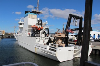 Port quarter view of the National Oceanic and Atmospheric Administration (NOAA) fisheries survey vessel NOAAS Reuben Lasker (R 228) around the time of her delivery to NOAA at Norfolk, Virginia